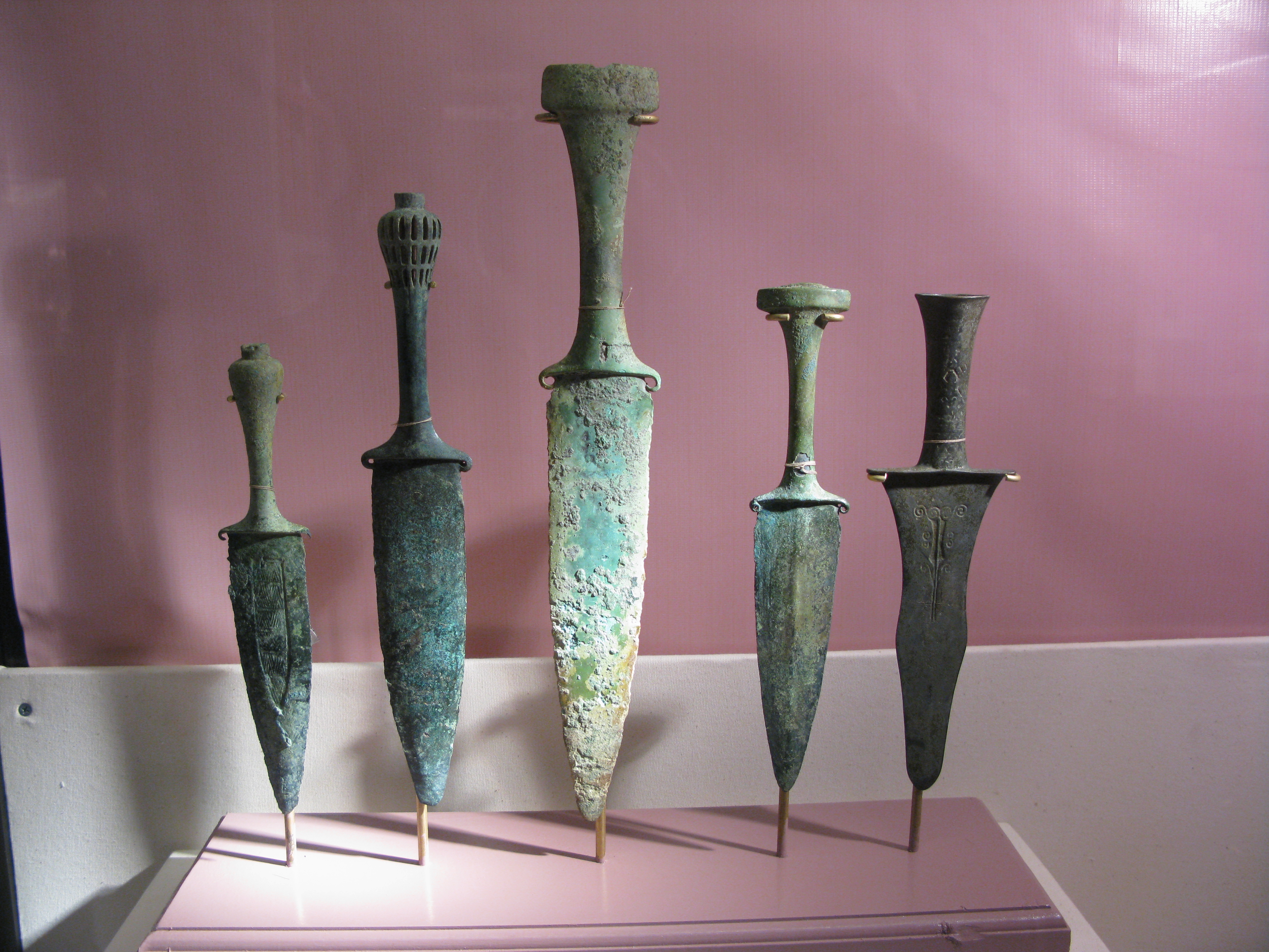 Bronze daggers, Dong Son Culture, 500 BCE - 0.